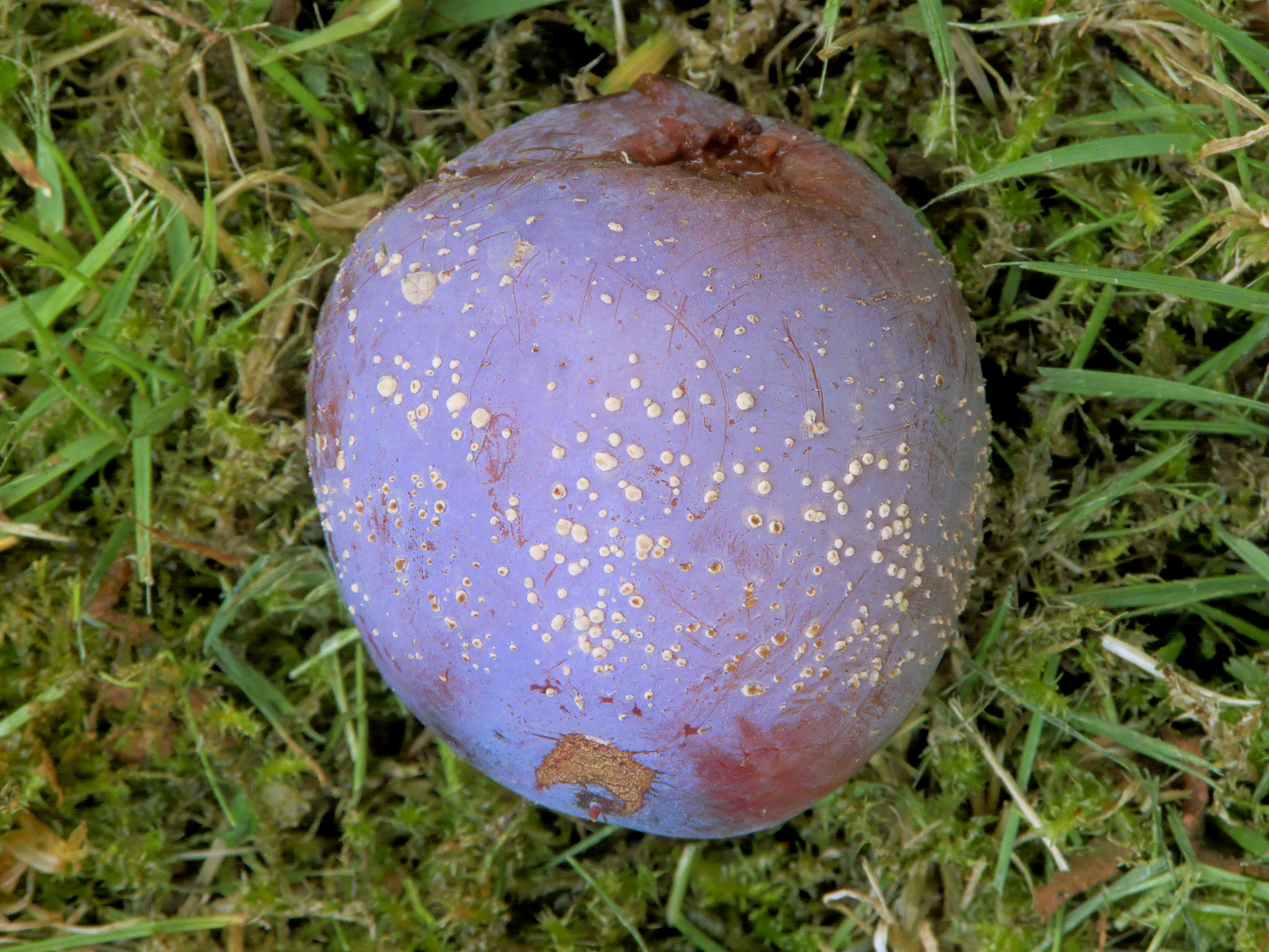 Prunus domestica 'Opal' with Monilinia fructigena